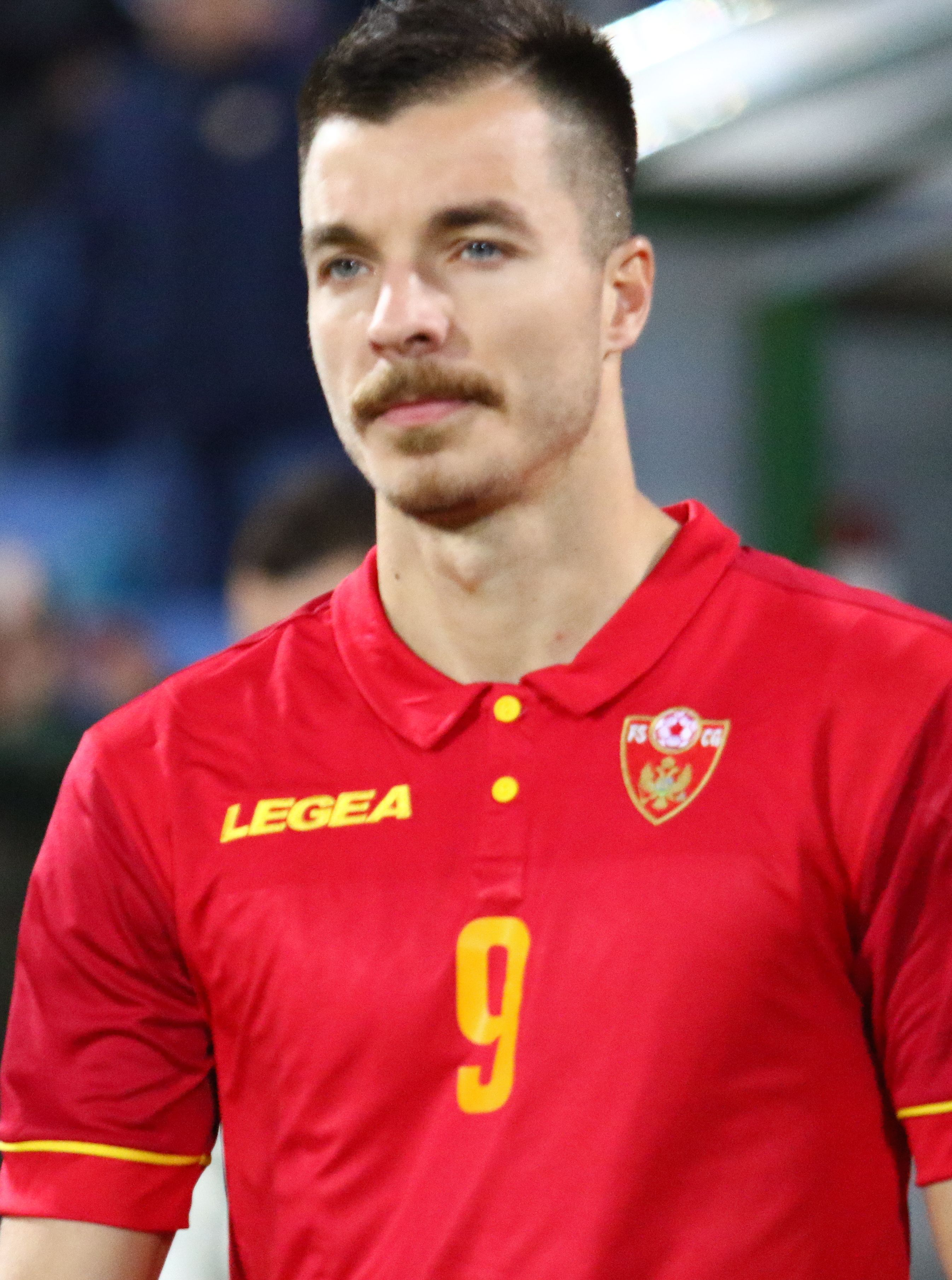 Stefan Mugoša (Montenegrin: Стефан Мугоша; born 26 February 1992) is a Montenegrin footballer who plays for Incheon United